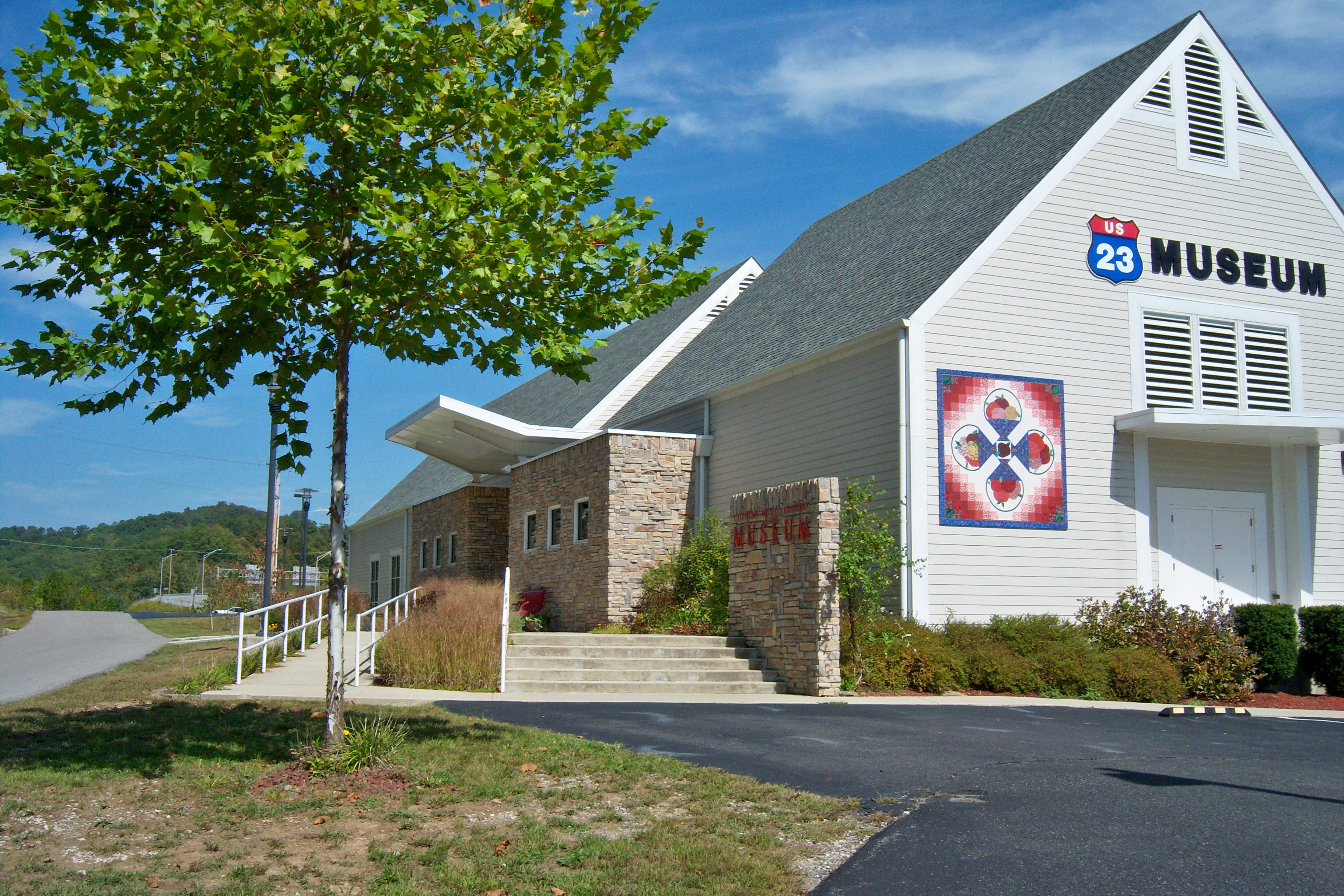 U.S. 23 Country Music Highway Museum in Paintsville, Kentucky.